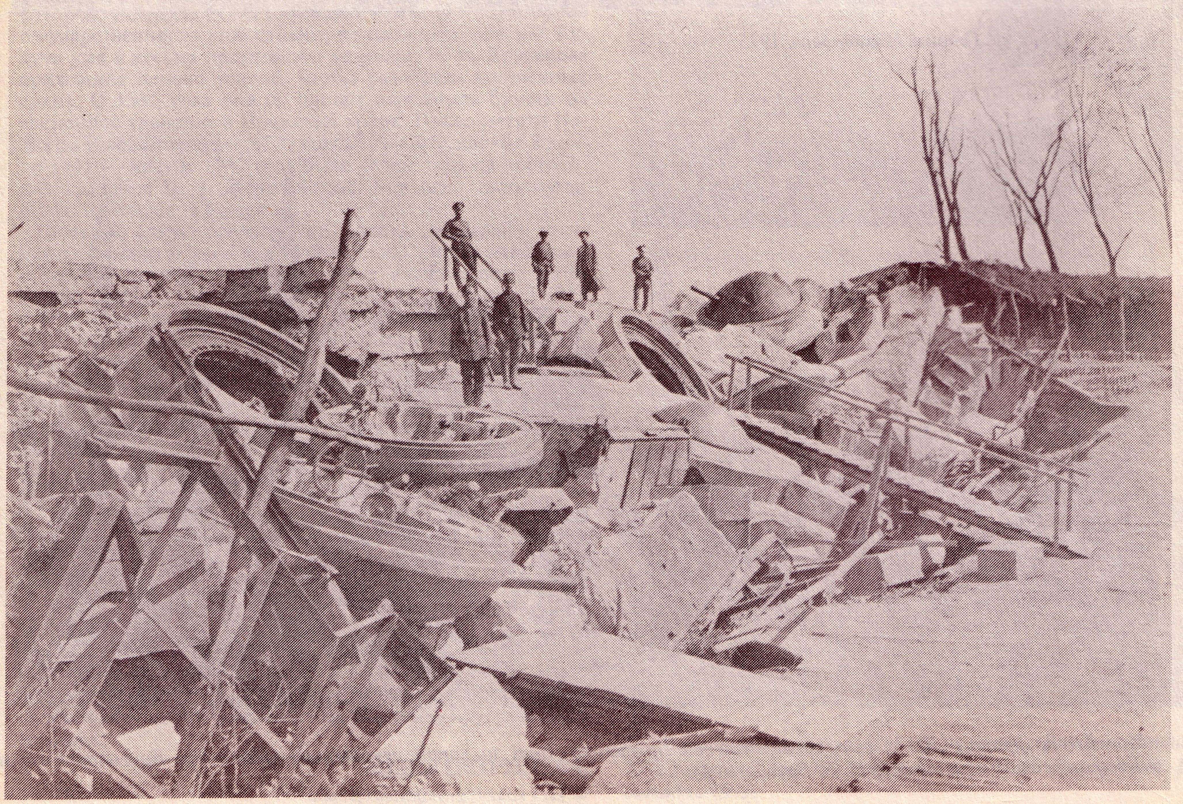 Fort Peremysl (pol. Przemyśl) WWI. Russian army. 1915